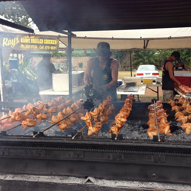 Huli huli. #northshore #haleiwa #hawaii #chicken #rotisserie